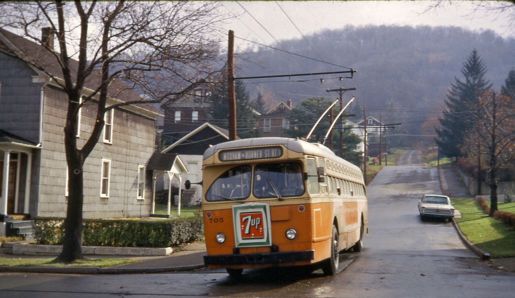 On the last day of trolleybus service in Johnstown, Pennsylvania, No. 705, built in 1951 by the St. Louis Car Company, is westbound on Jacob Street at Highland Avenue, in the loop at the outer end of the "Moxham via Horner Street Route 1" (there was also a "Moxham via Horner Street Route 2", and all other Johnstown trolleybus lines were unnumbered).